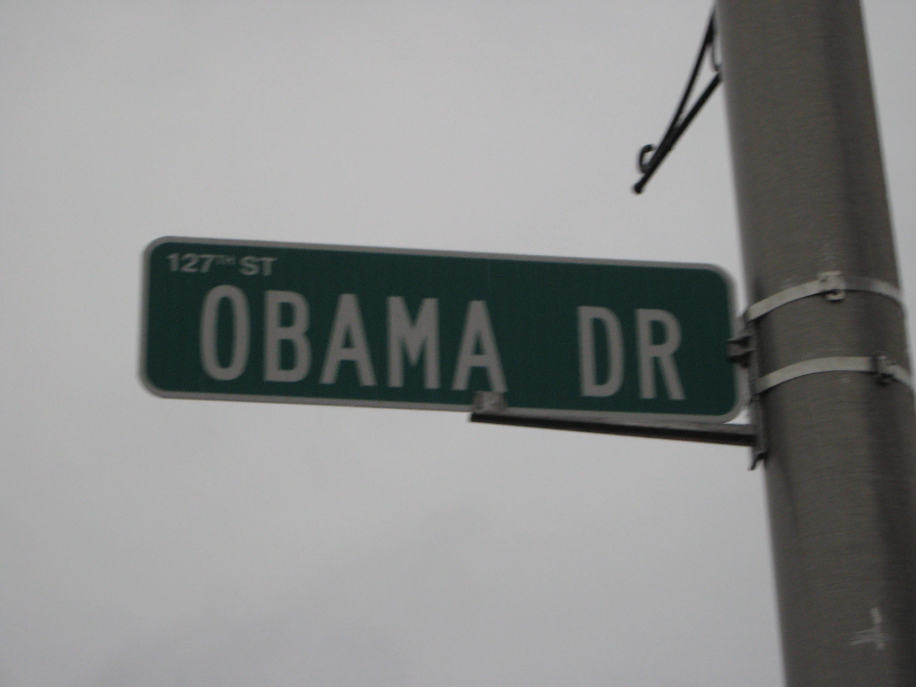 The first and only street named after the 44th president, Barack H. Obama in the nation!